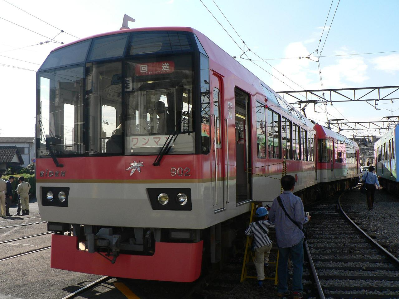 Inside Eizan Electric Railway Type Deo 900 at Eiden Matsuri festival held at Shugakuin depot